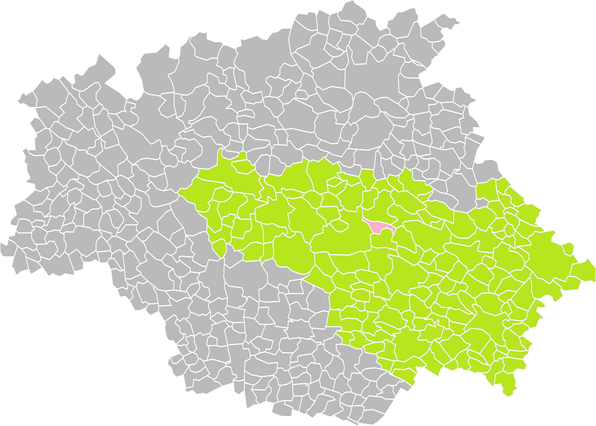 Location of the commune of Leboulin in the arrondissement of Auch (Gers)